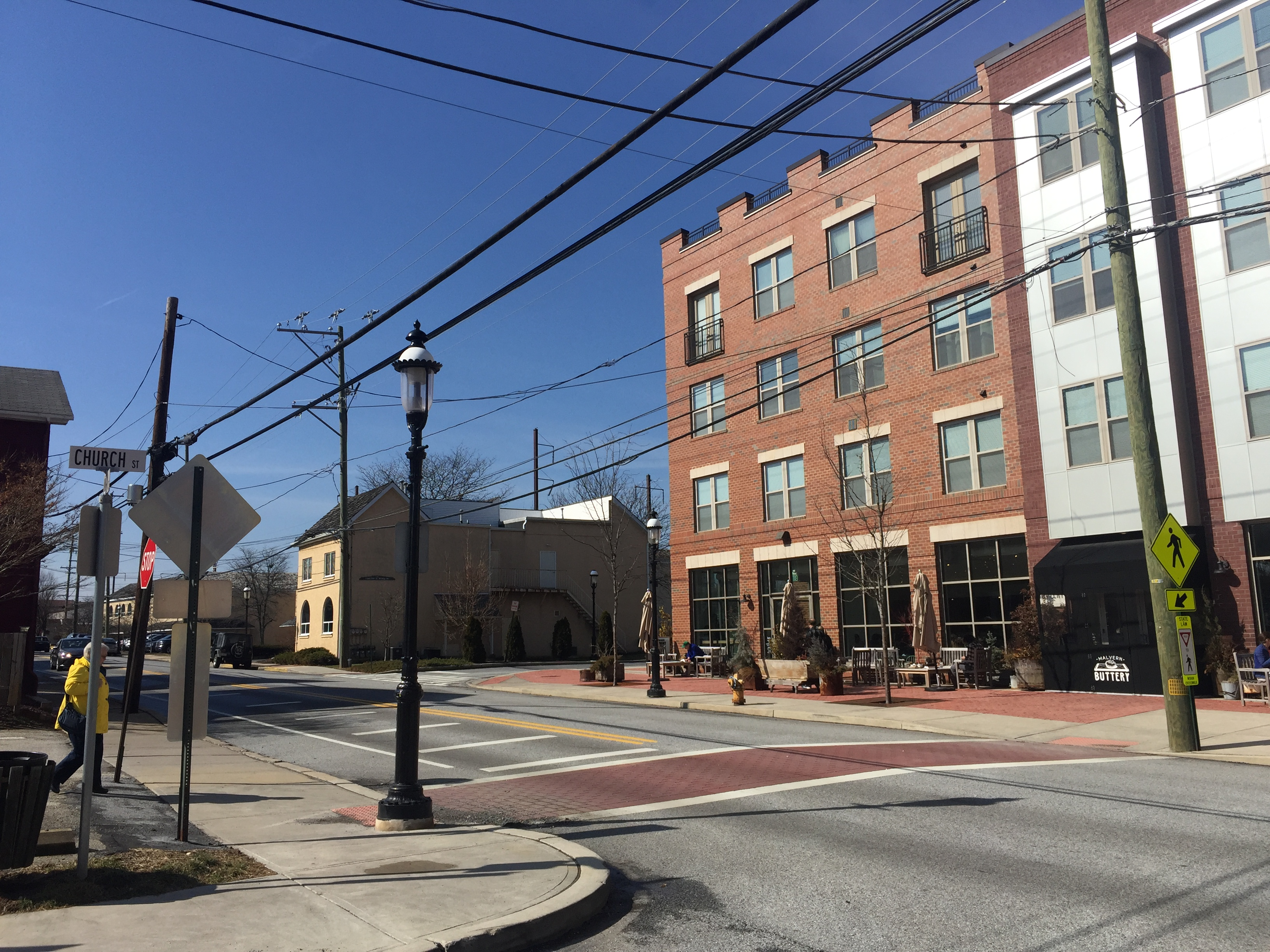 Downtown east side